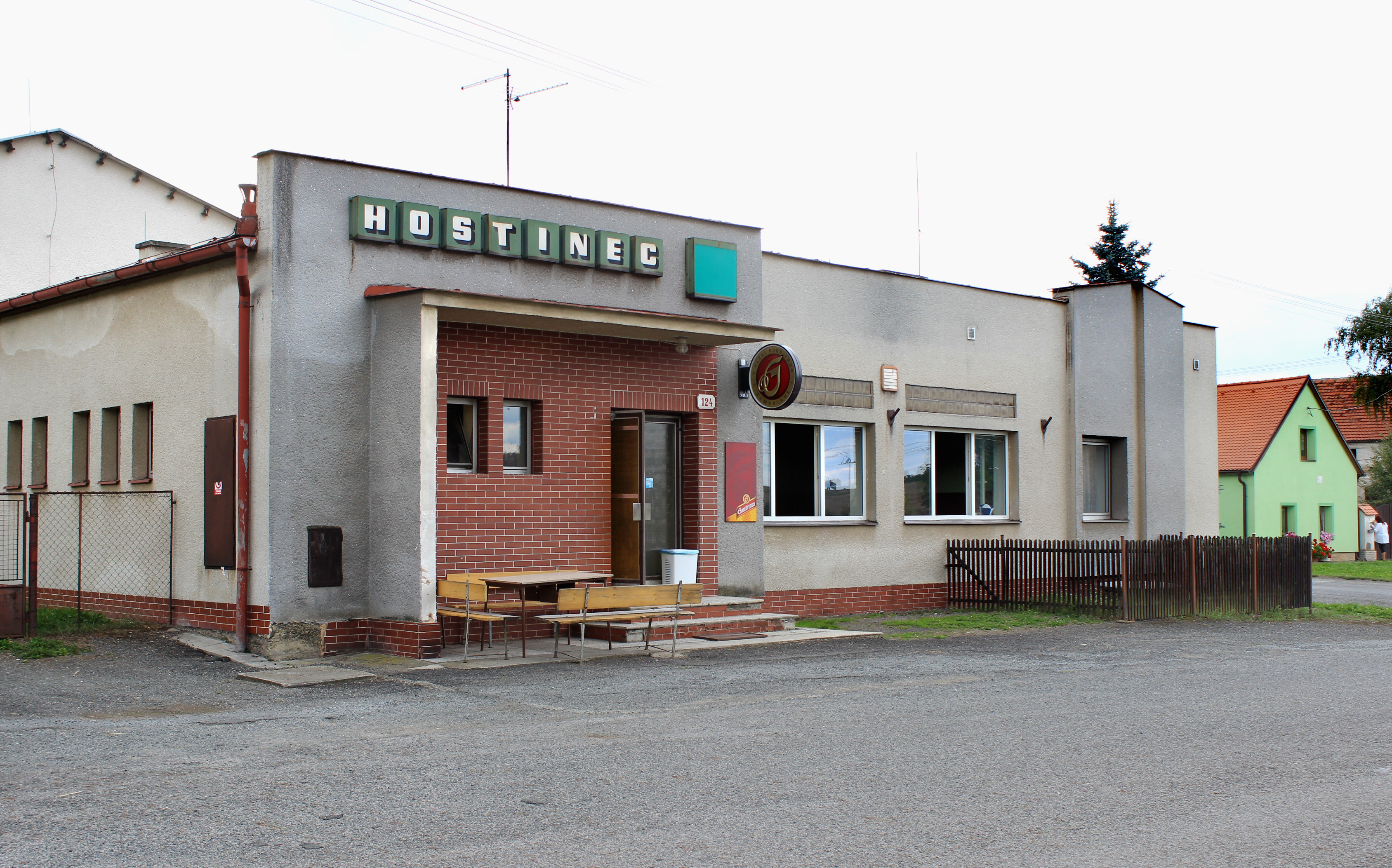 Restaurant in Ves Touškov village, Czech Republic.